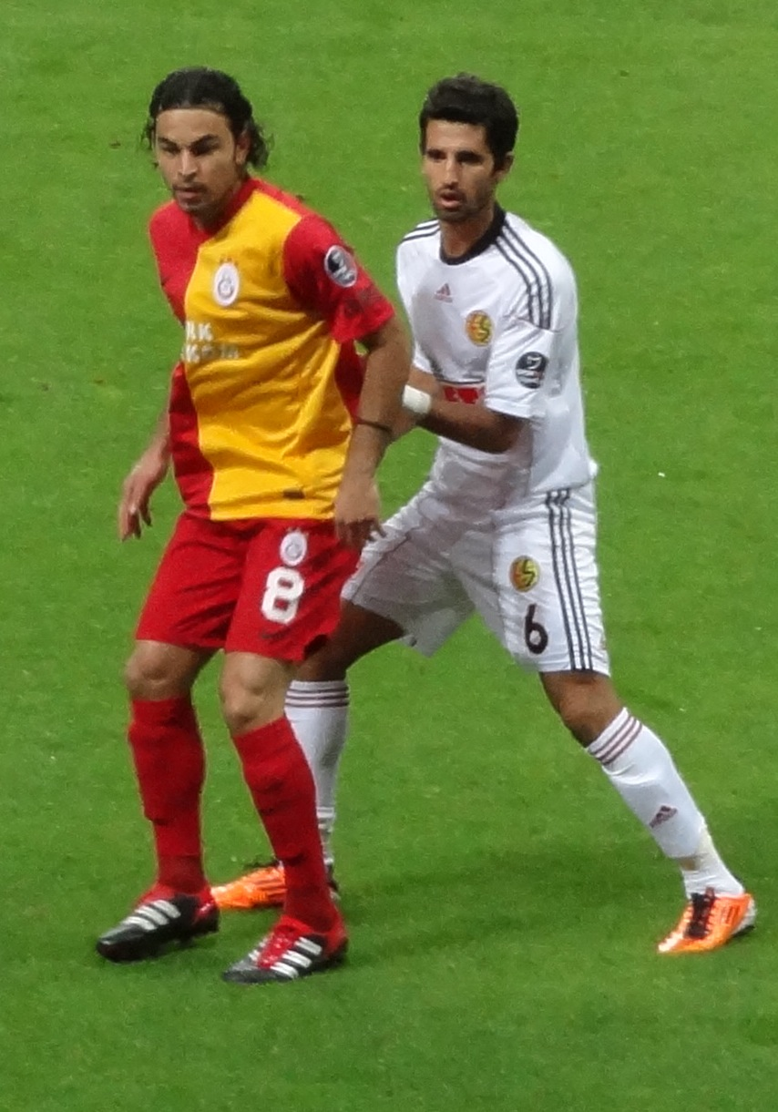 alper potuk vs selçukinan galatasaray-eskişehir match gs won 2-0